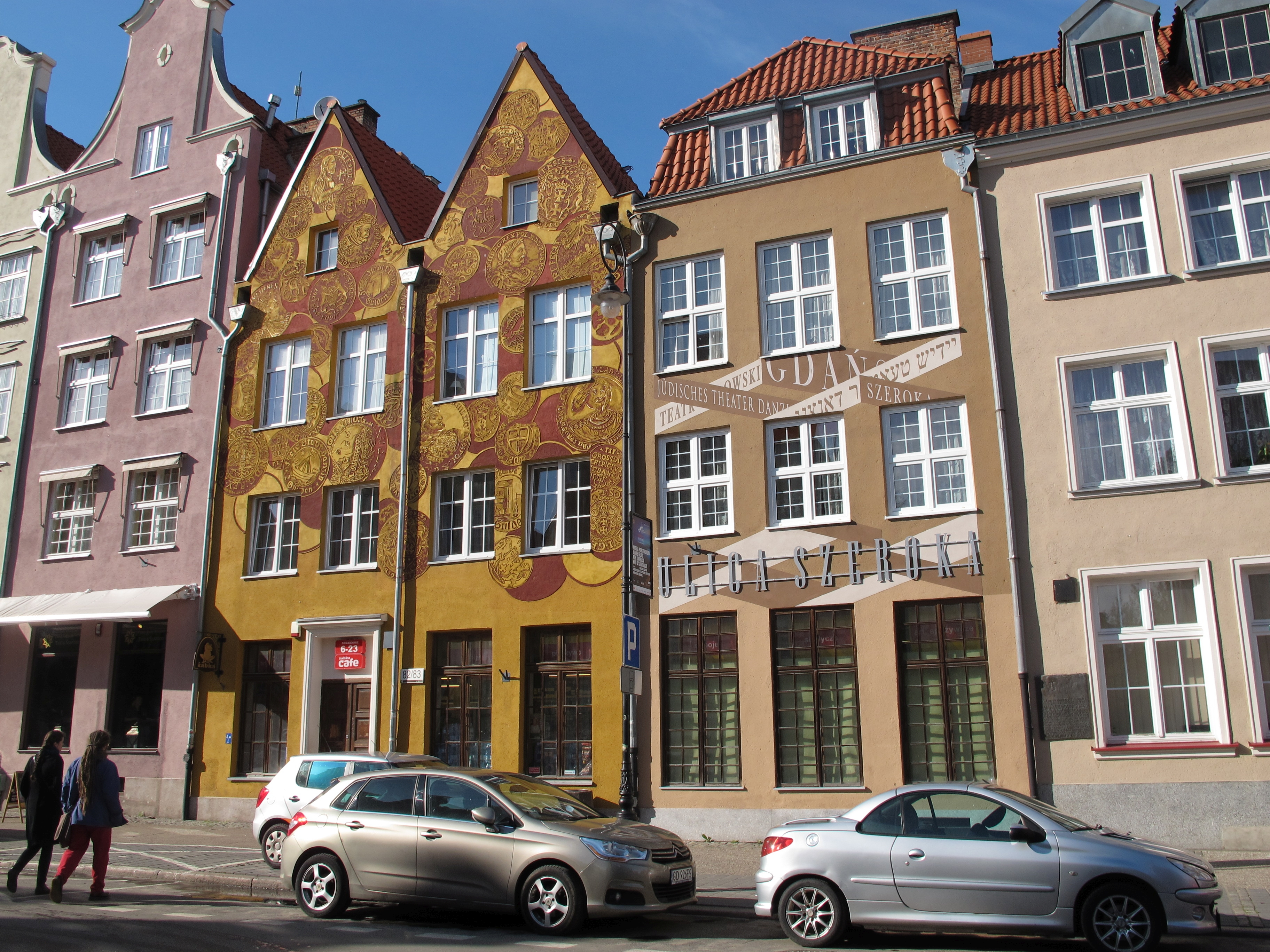 Gdańsk - the house at 82-83 Szeroka str.